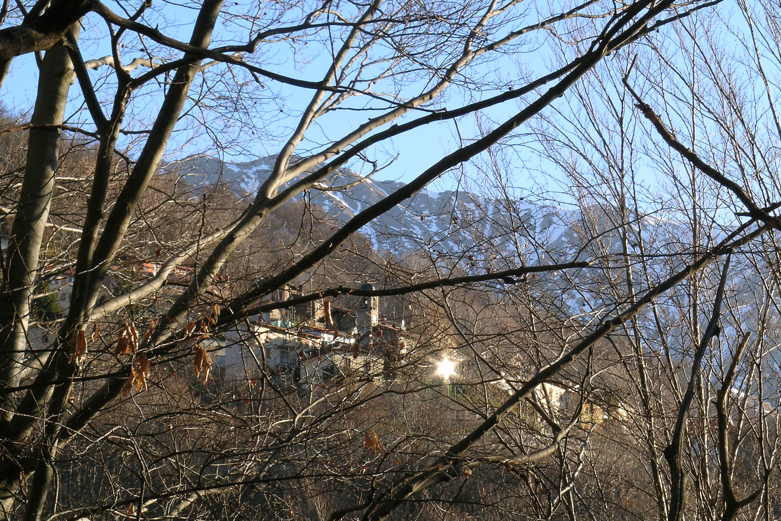 Scareglia village in Valcolla in Ticino, Switzerland